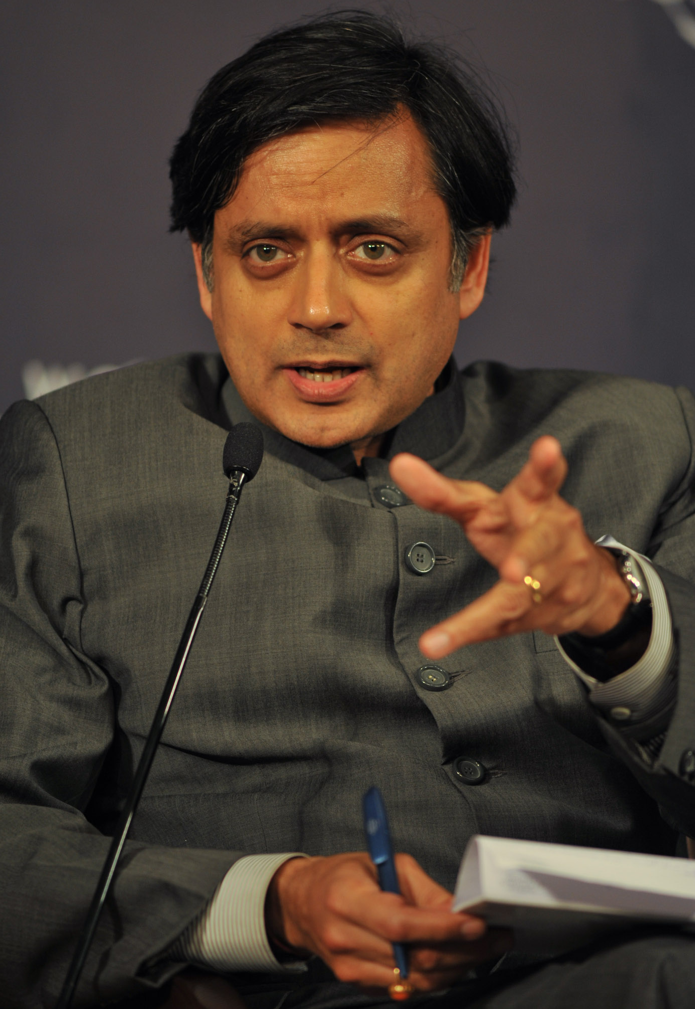 Shashi Tharoor in the Global Redesign Session. Participants captured during the World Economic Forum's India Economic Summit 2009 held in New Delhi, 8-10 November 2009.